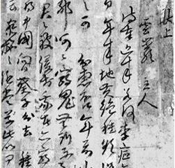 Letter of Cho Kwang-jo, Korean Joseon Dynasty's politicians